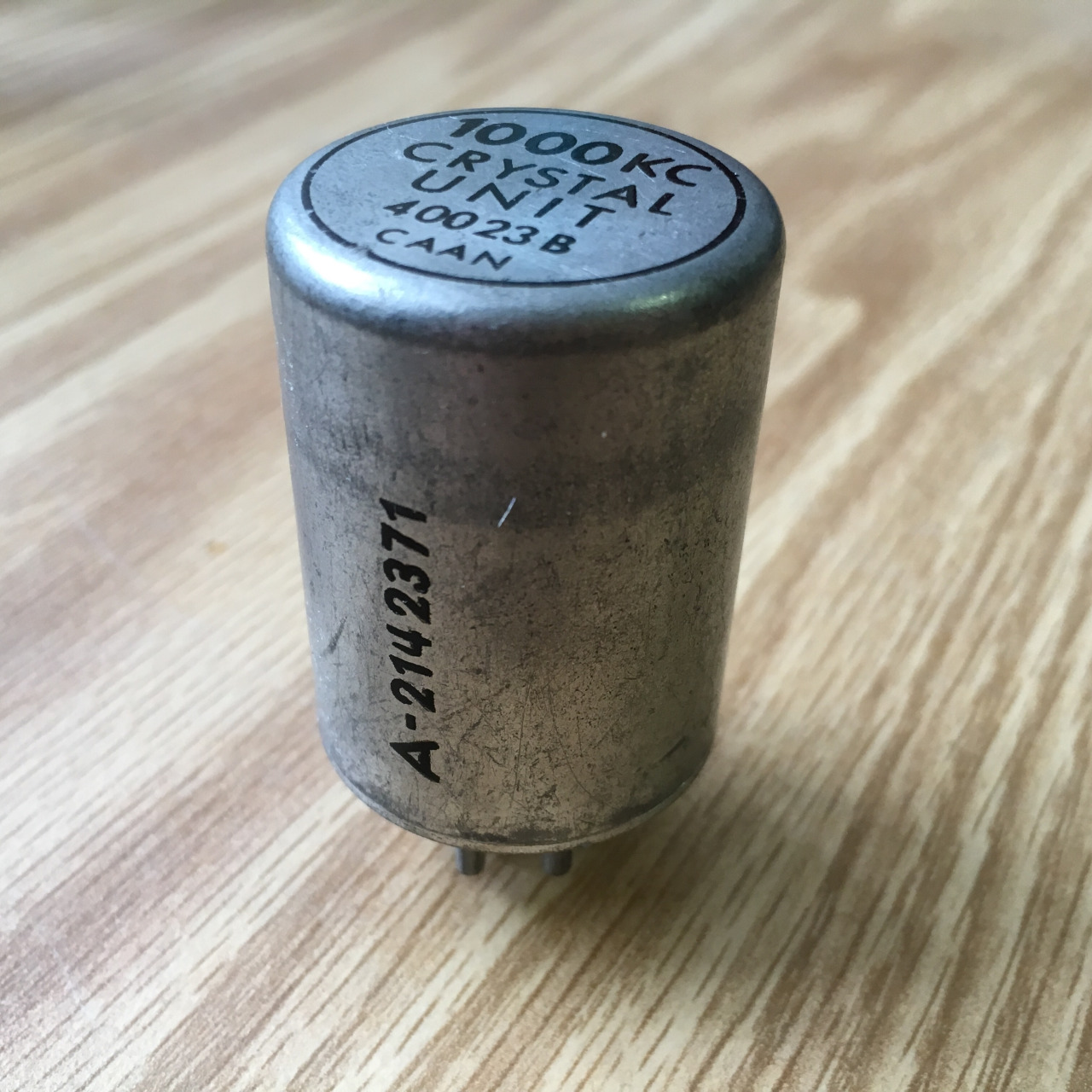 A 1000 kilocycle military grade crystal resonator (CRR-40023B) with an octal base